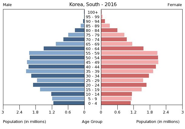 The population pyramid of South Korea illustrates the age and sex structure of population and may provide insights about political and social stability, as well as economic development. The population is distributed along the horizontal axis, with males shown on the left and females on the right. The male and female populations are broken down into 5-year age groups represented as horizontal bars along the vertical axis, with the youngest age groups at the bottom and the oldest at the top. The shape of the population pyramid gradually evolves over time based on fertility, mortality, and international migration trends.